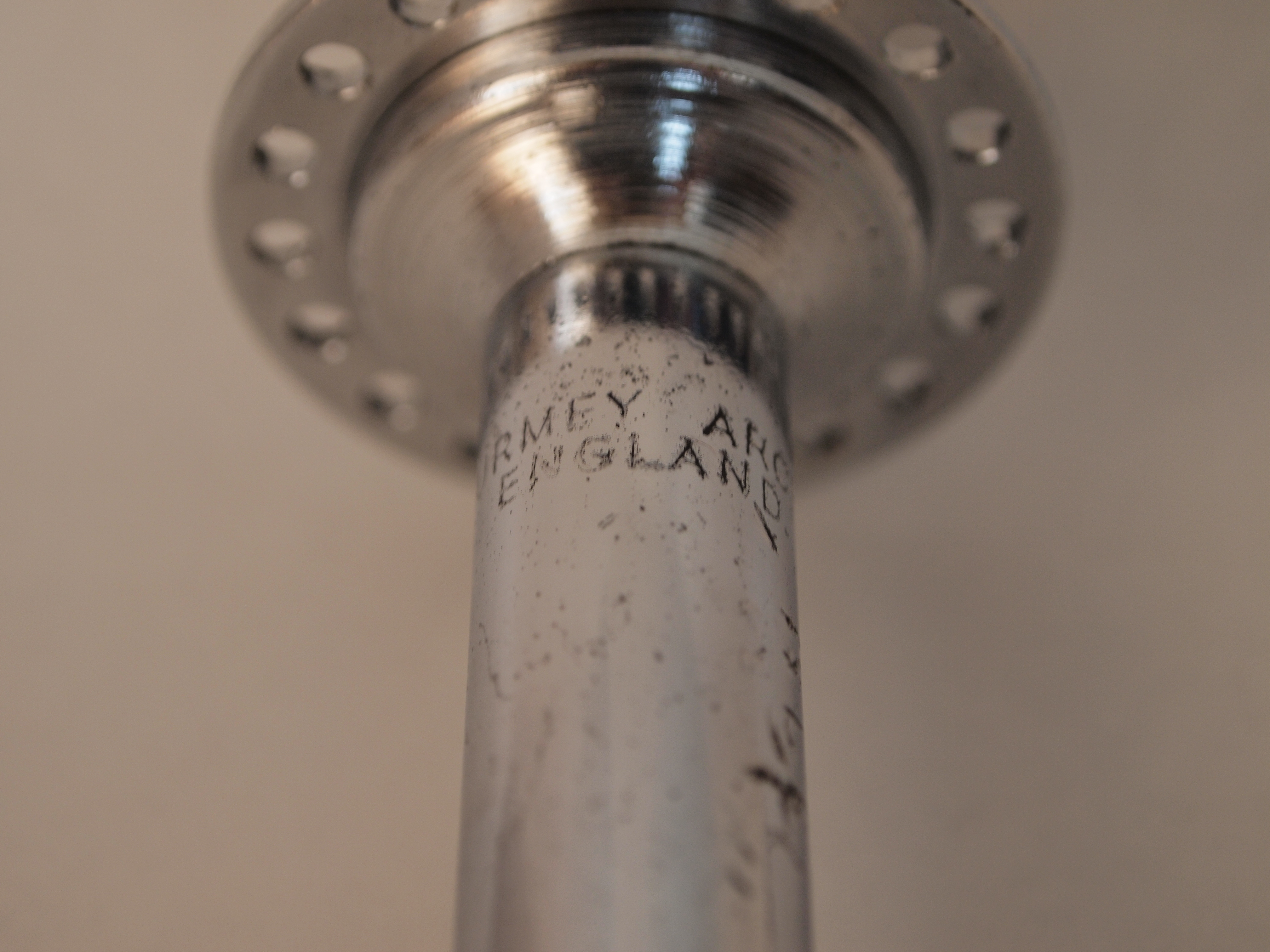 Front Hub, Made by Sturmey-Archer